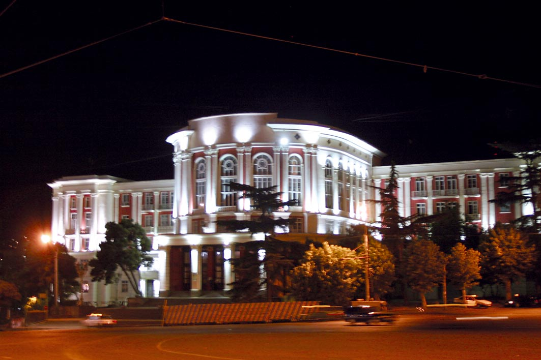 Georgian Technical University